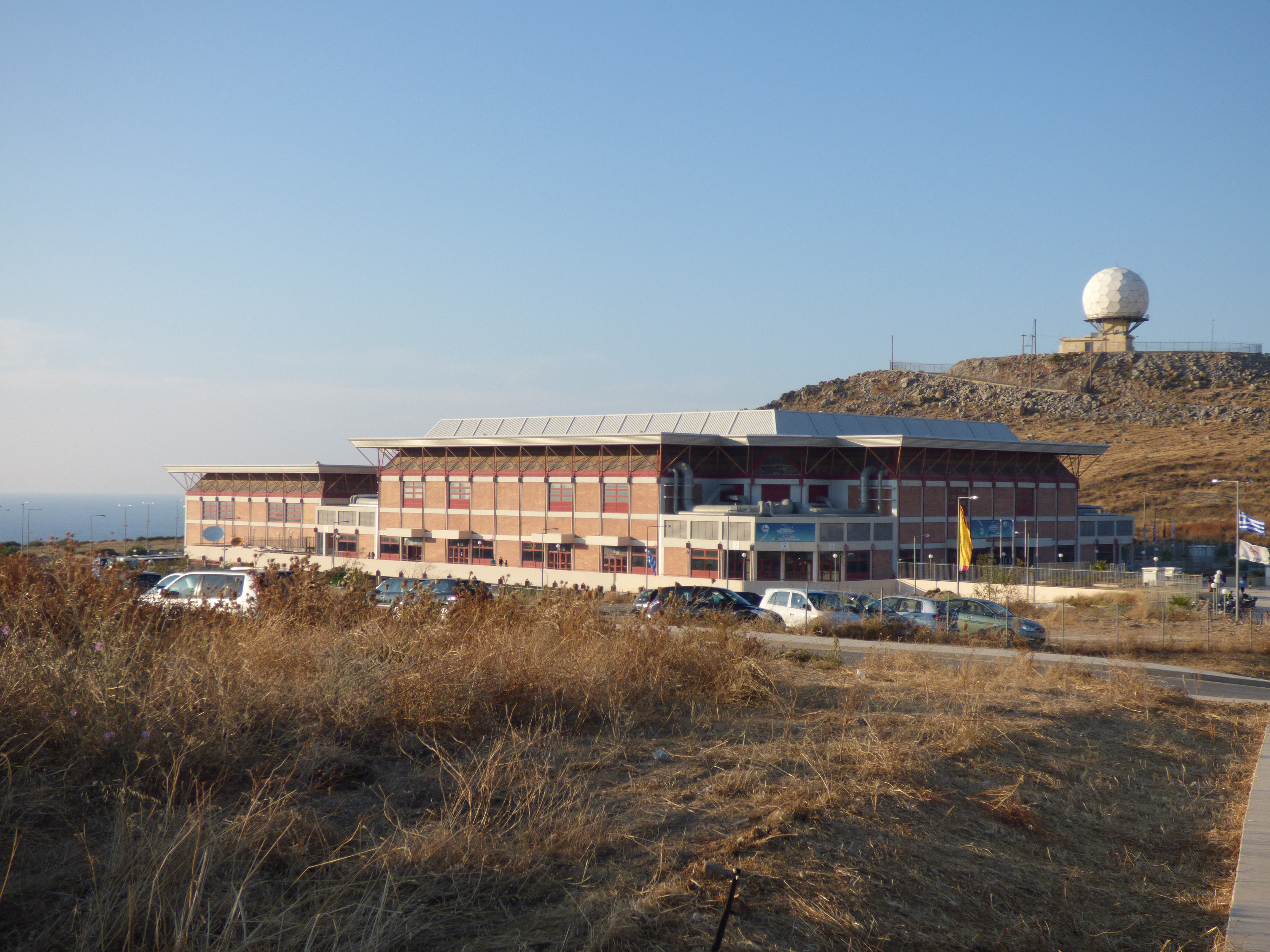 Heraklion Indoor Sports Arena